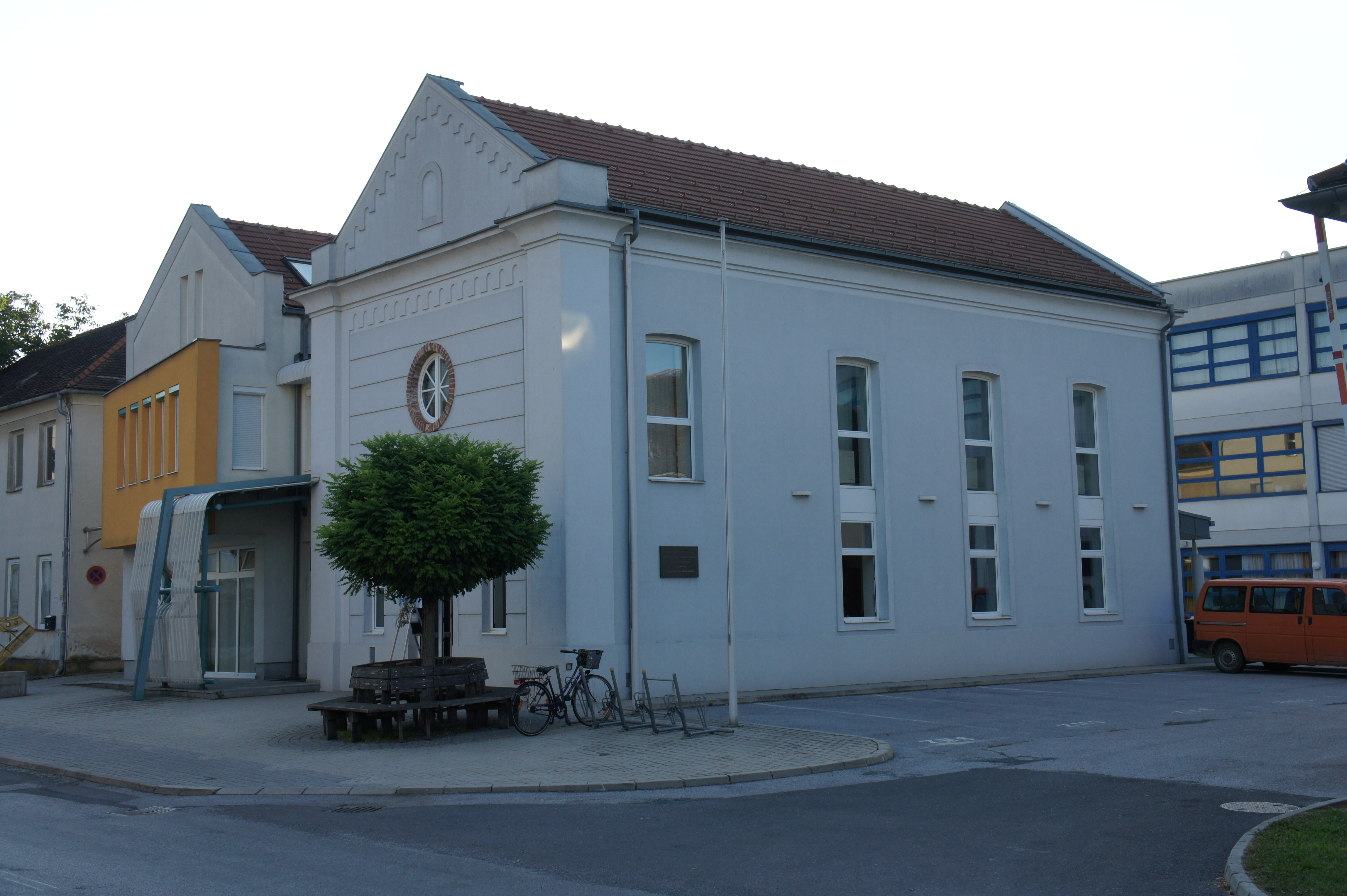 Former synagogue, Oberwart, Austria